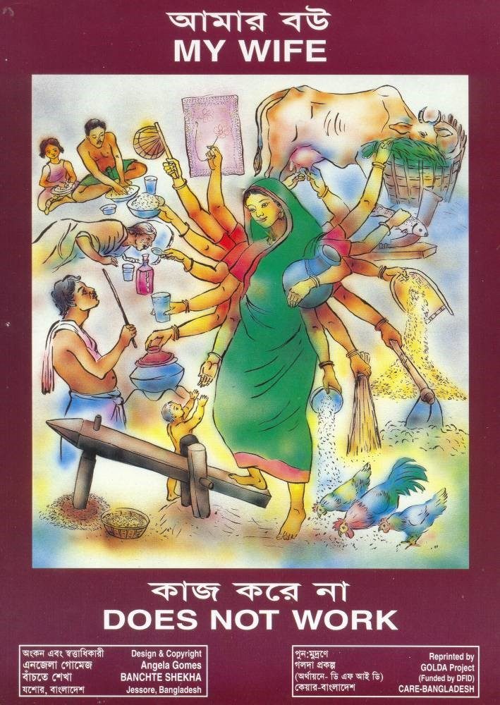 "My Wife Does Not Work" was a poster the conceptualistion of which came from by M.C. Nandeesha, was designed by Angela Gomes, printed by Banchte Shekha, Jessore, Bangladesh and reprinted by the CARE-Bangladesh GOLDA project.